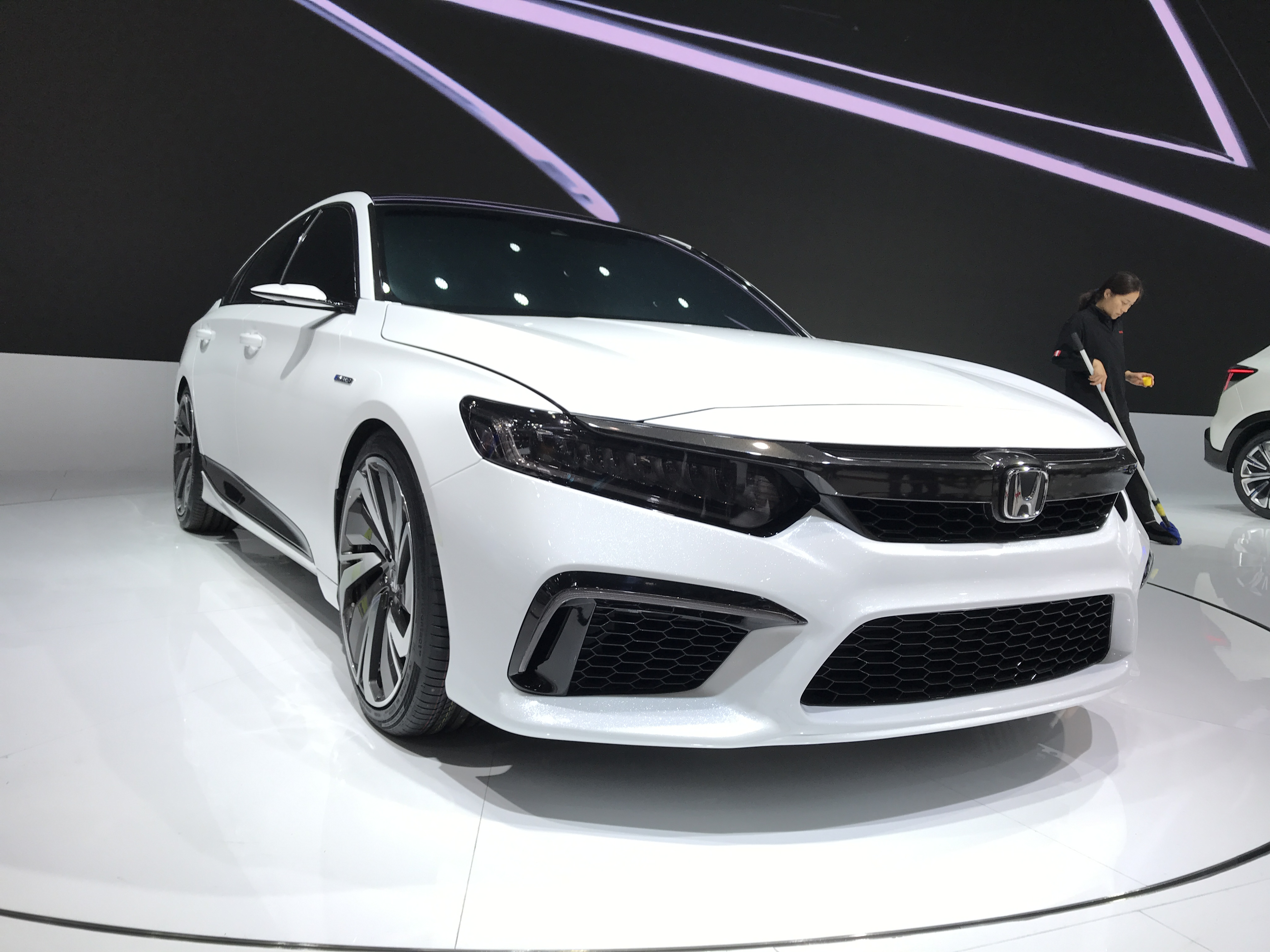 2018 Honda Inspire pre-production model